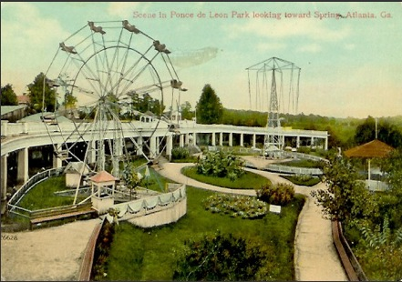 postcard of Ponce de Leon amusement park early around 1900-1920